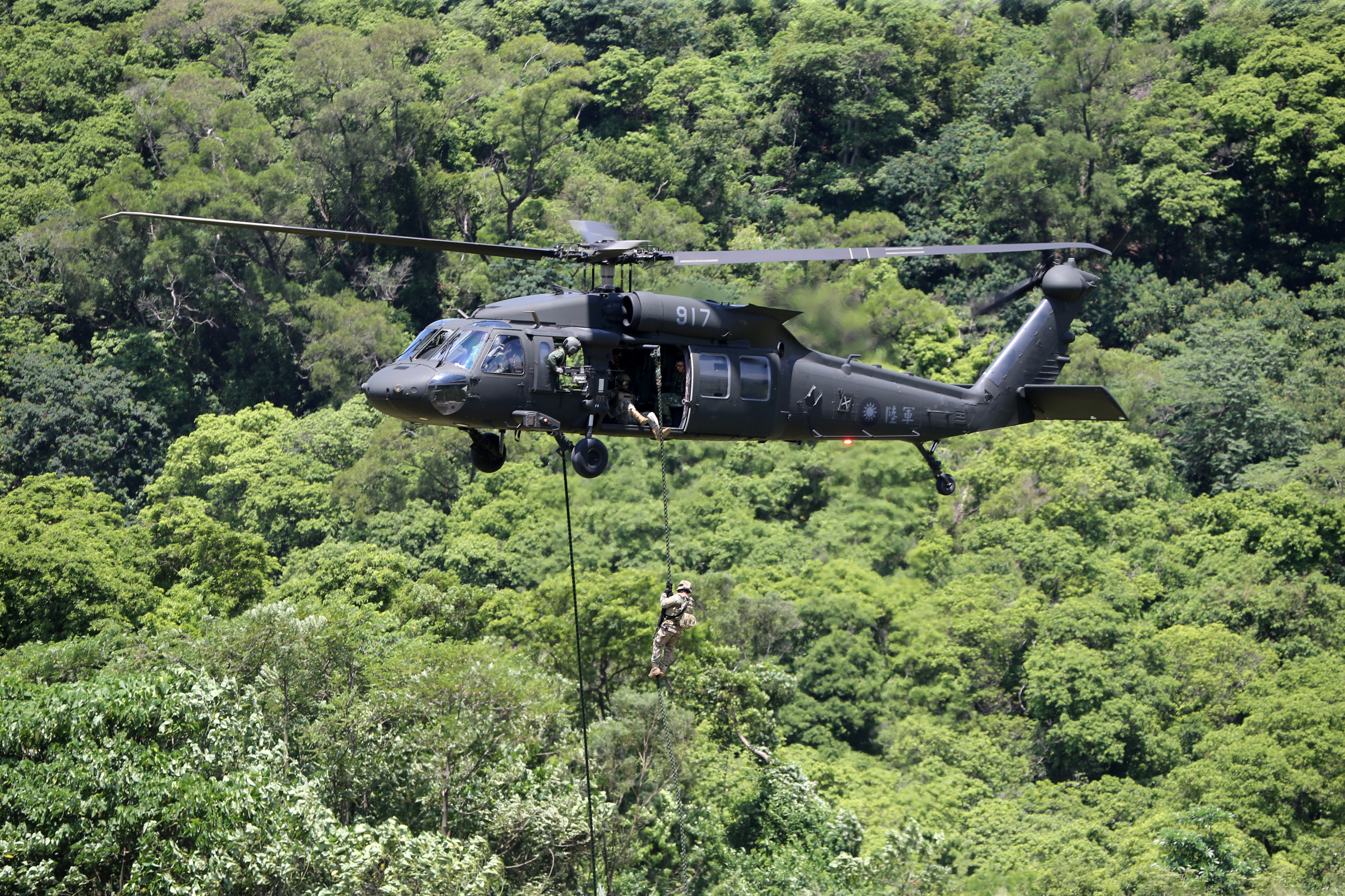 授權方式及範圍：中華民國總統府│政府網站資料開放宣告 Authorization Method & Scope: Office of the President, Republic of China (Taiwan) | Government Website Open Information Announcement